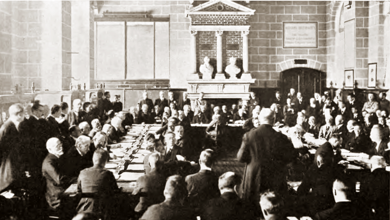 Dr. Karl Renner, head of the Austrian delegation at the Peace Conference, addressing the other delegates when receiving the peace conditions of the Treaty of St. Germain.